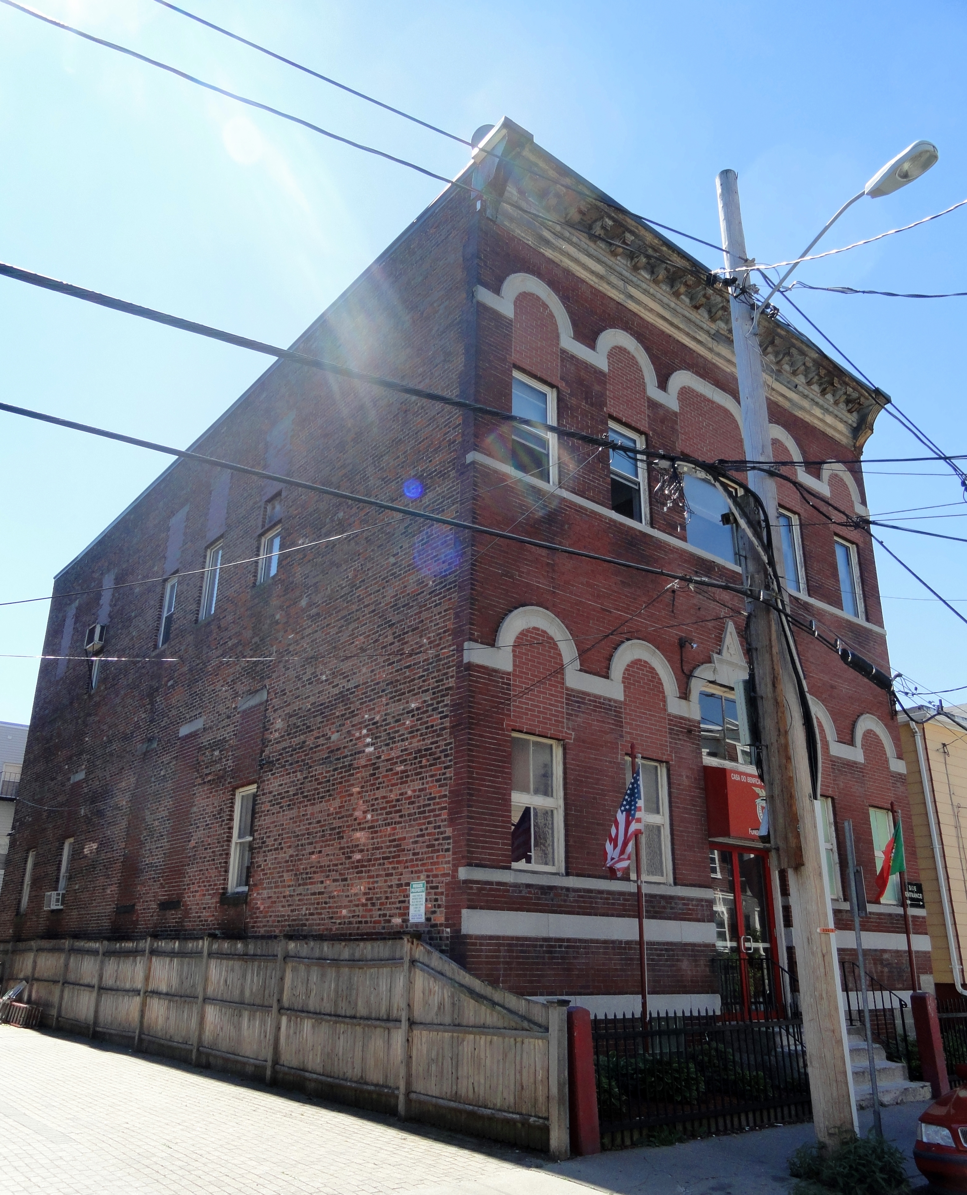 Casa do Benfica da Nova Inglaterra (formerly the Cambridge and Somerville Hebrew Literary Association), 178 Elm Street, Cambridge, Massachusetts, USA.